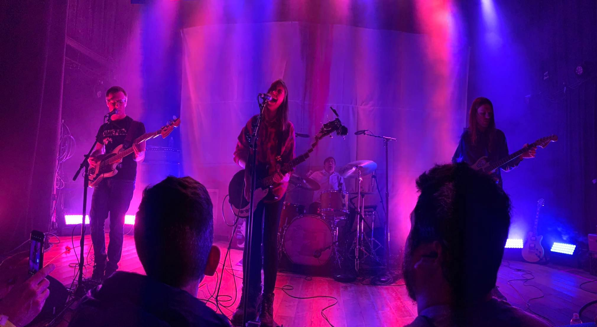 Ratboys performing at Lincoln Hall in Chicago, Illinois